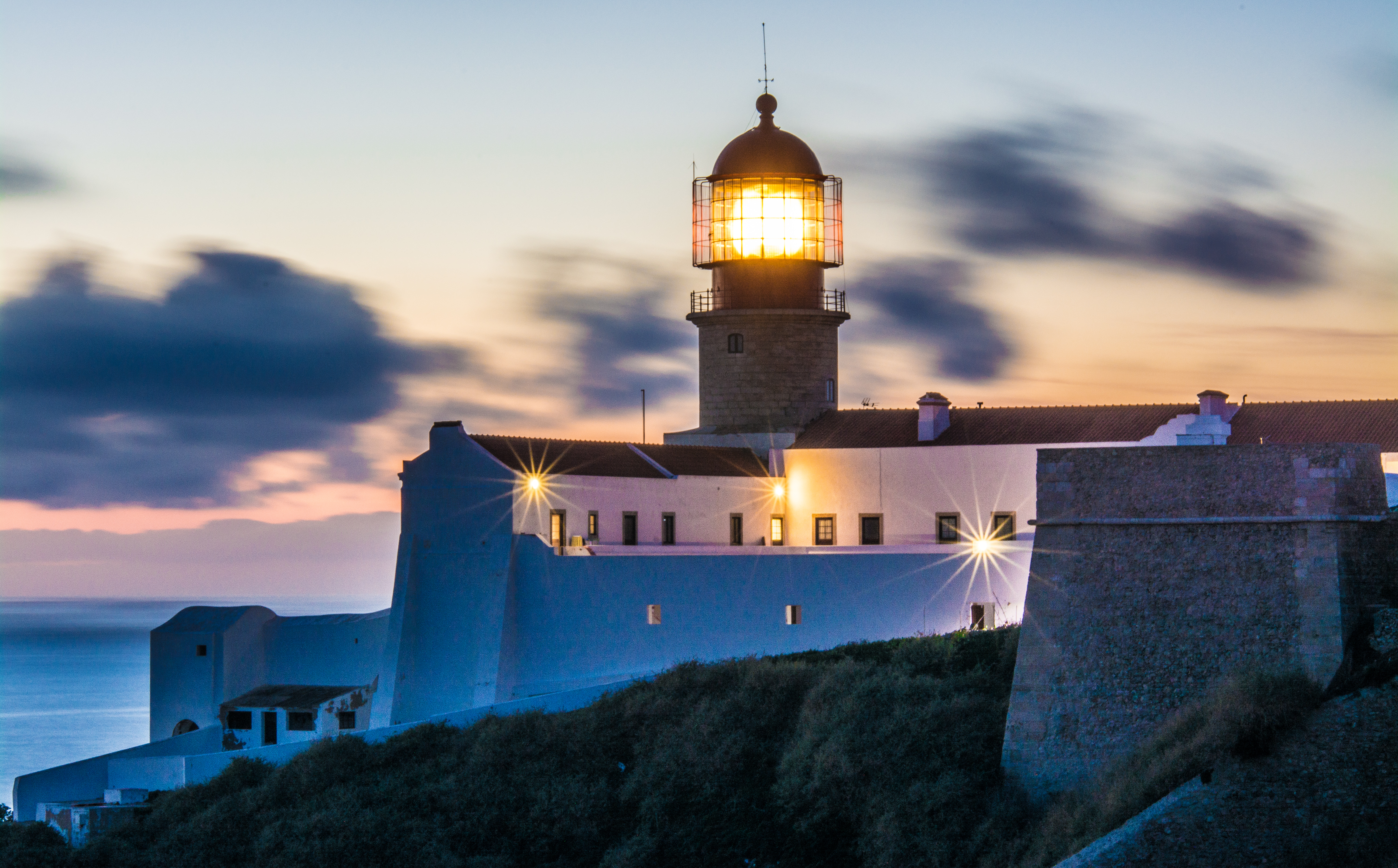 The lighthouse at Cape St. Vincent in Portugal